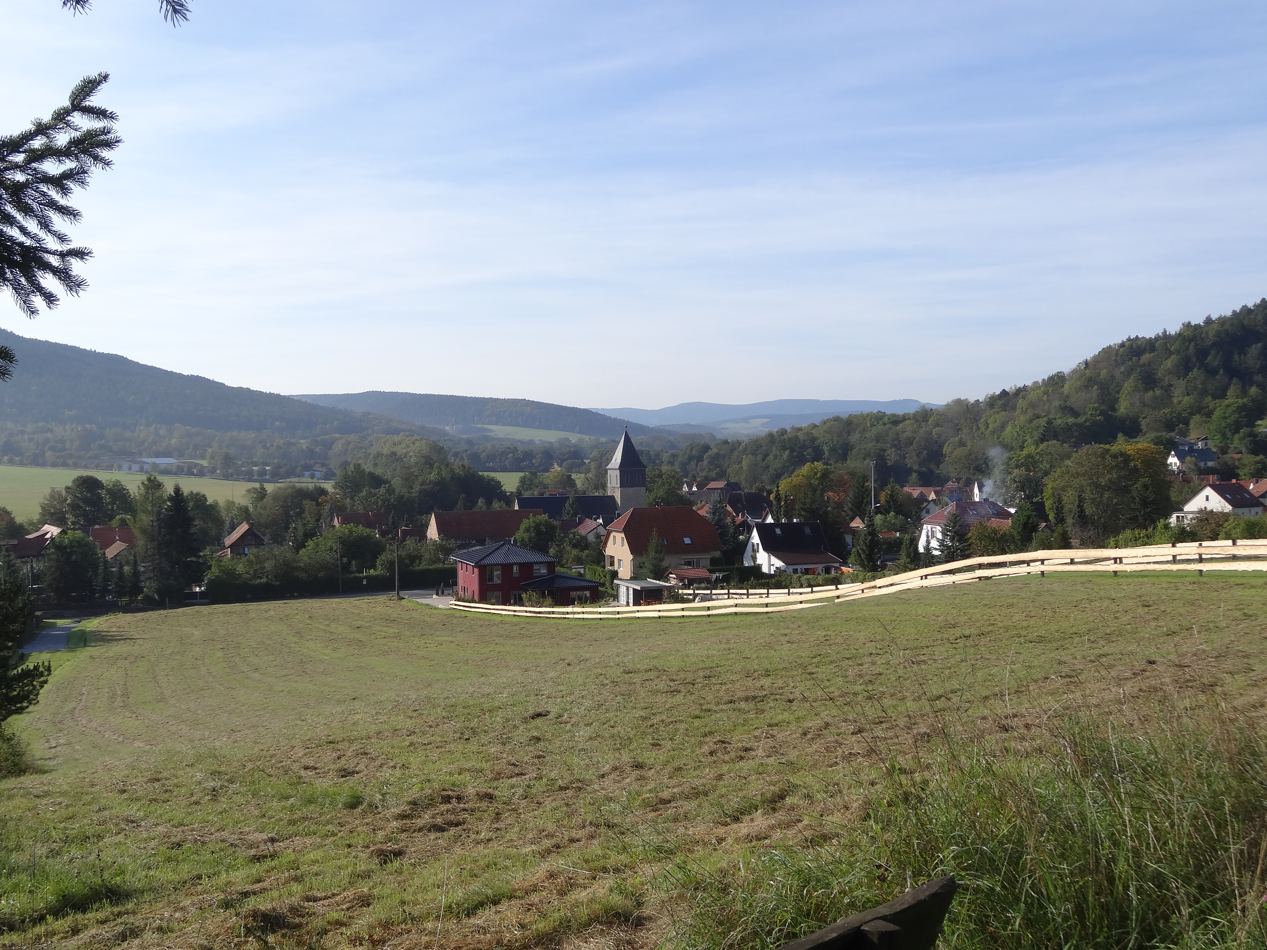 View on Dosdorf, Thuringia, Germany